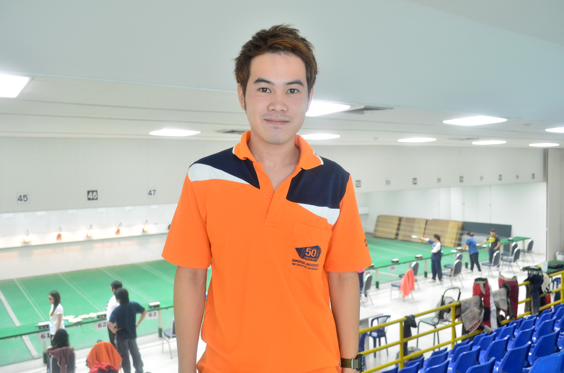 Pongpol Kulchairattana